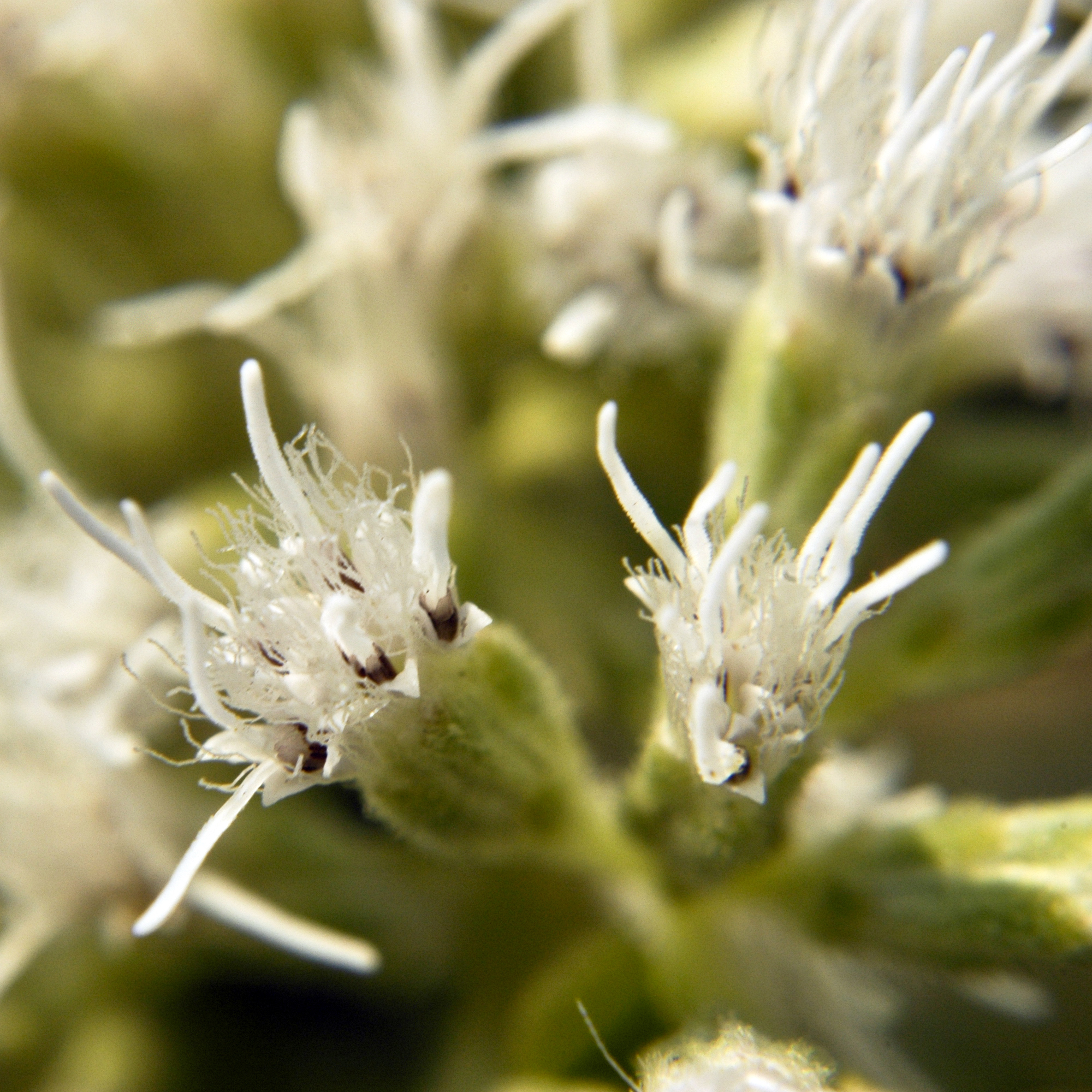 close up image of Eupatorium altissimum TALL BONESET at the James Woodworth Prairie Preserve - several blooms at flower, showing individual flowers detail This species is featured in the soon-to-be-published book, Abundant Splendor: Wildflowers of the Tall Grass Prairie. for more information